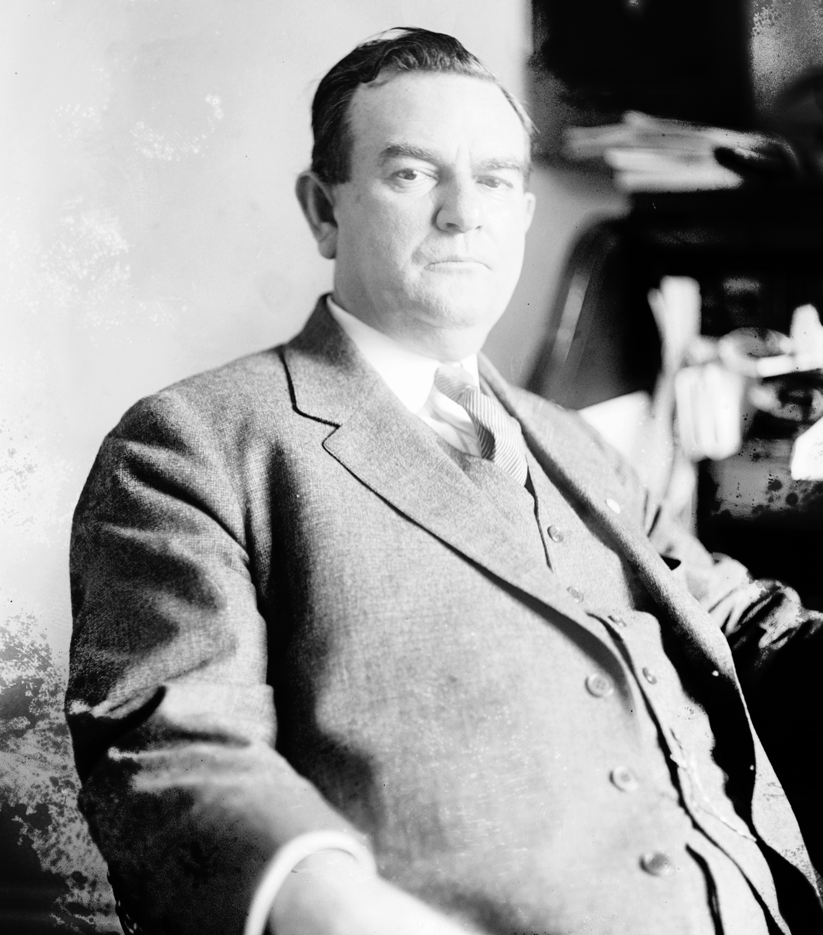 Claude Benton Hudspeth, US Representative from Texas